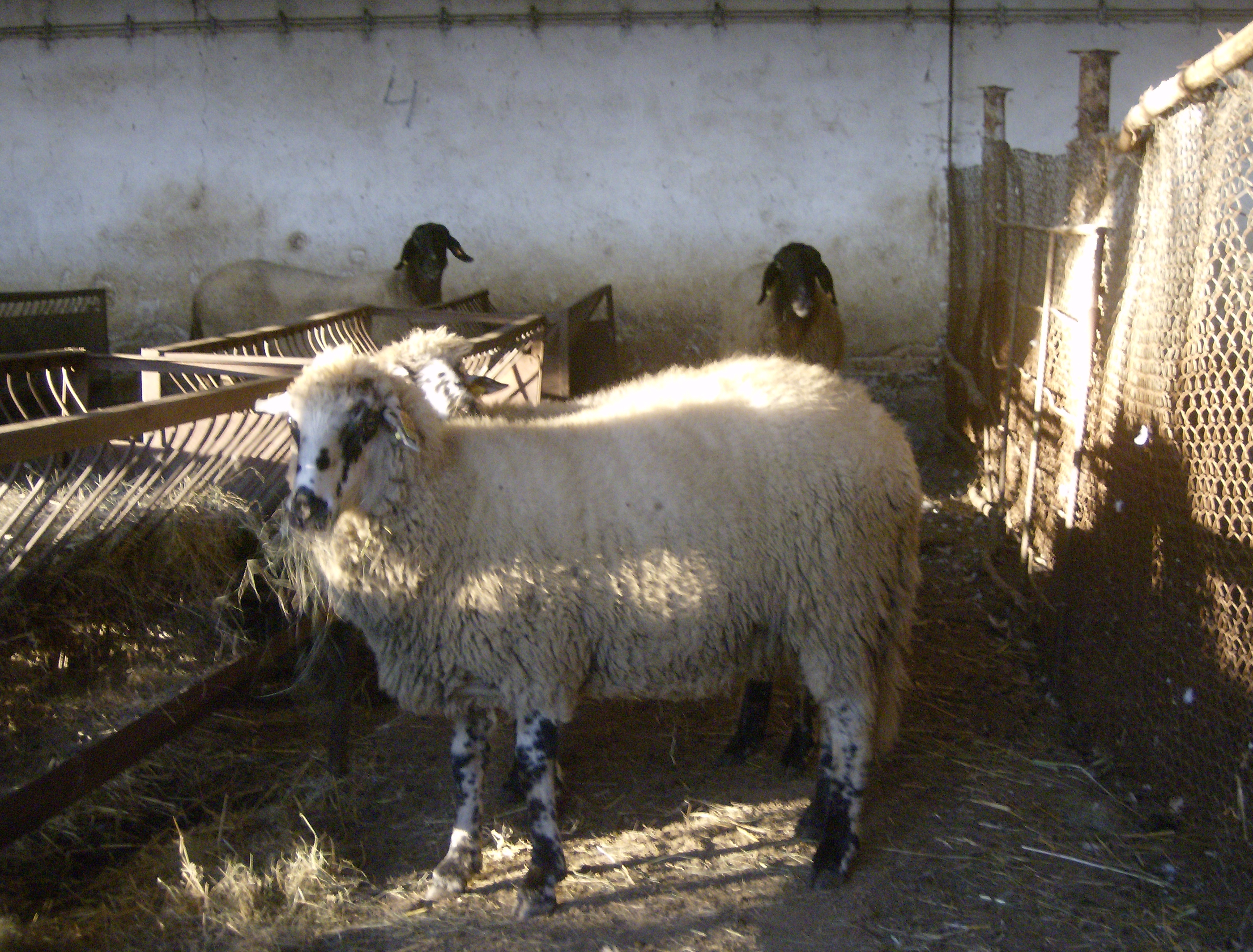 Replyan Sheep